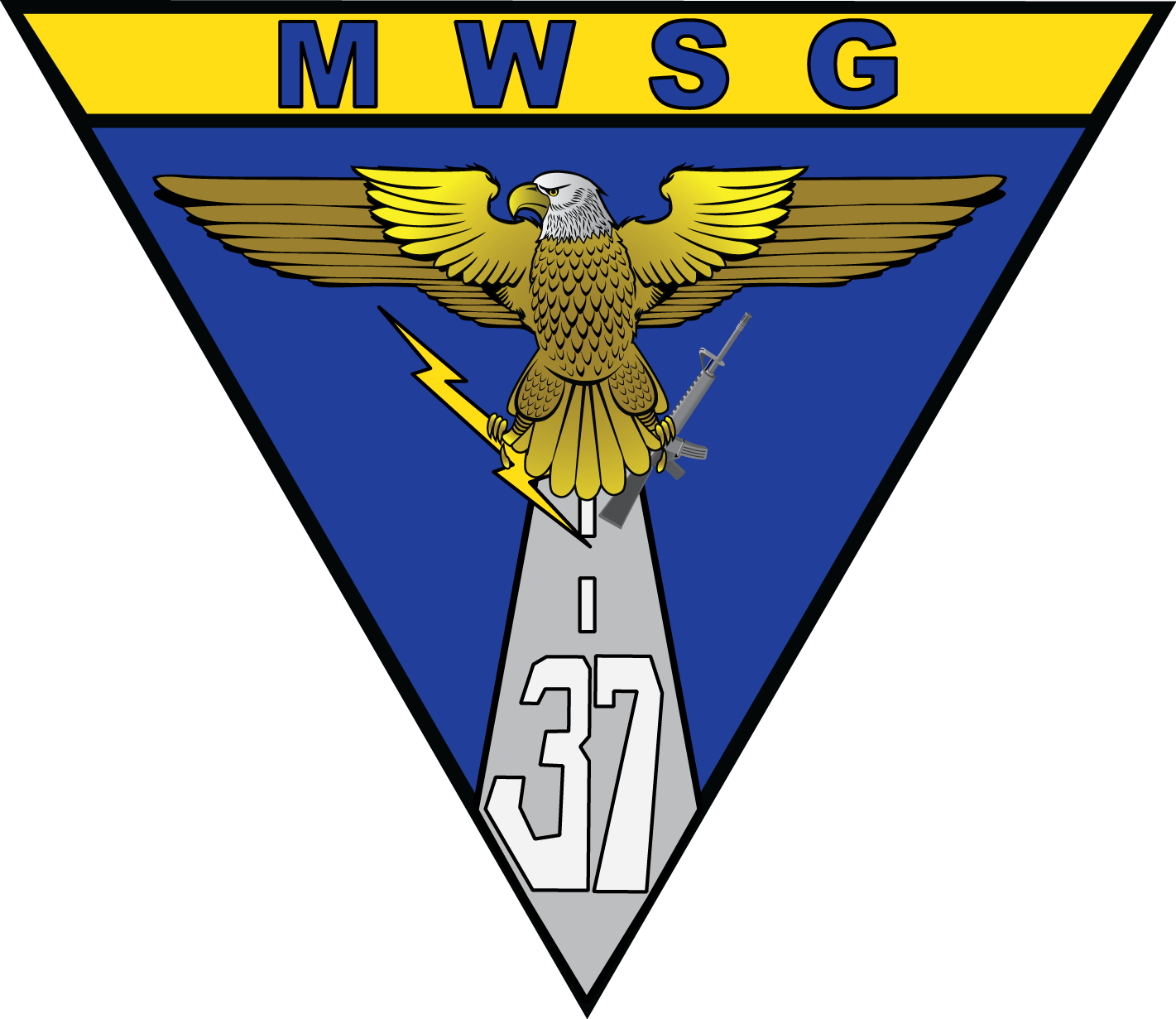 MWSG-37 Unit Logo